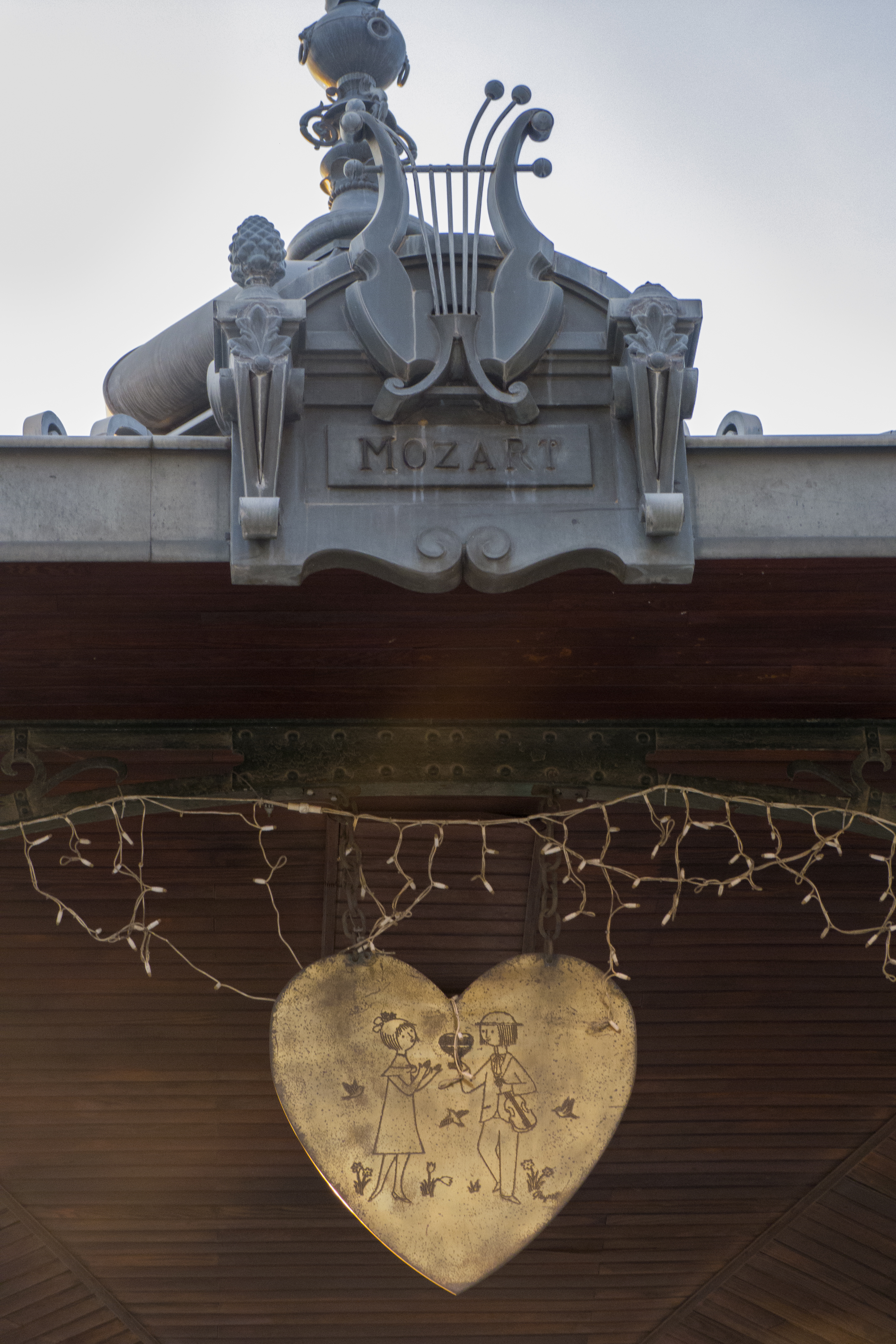 « PA00117090 » .